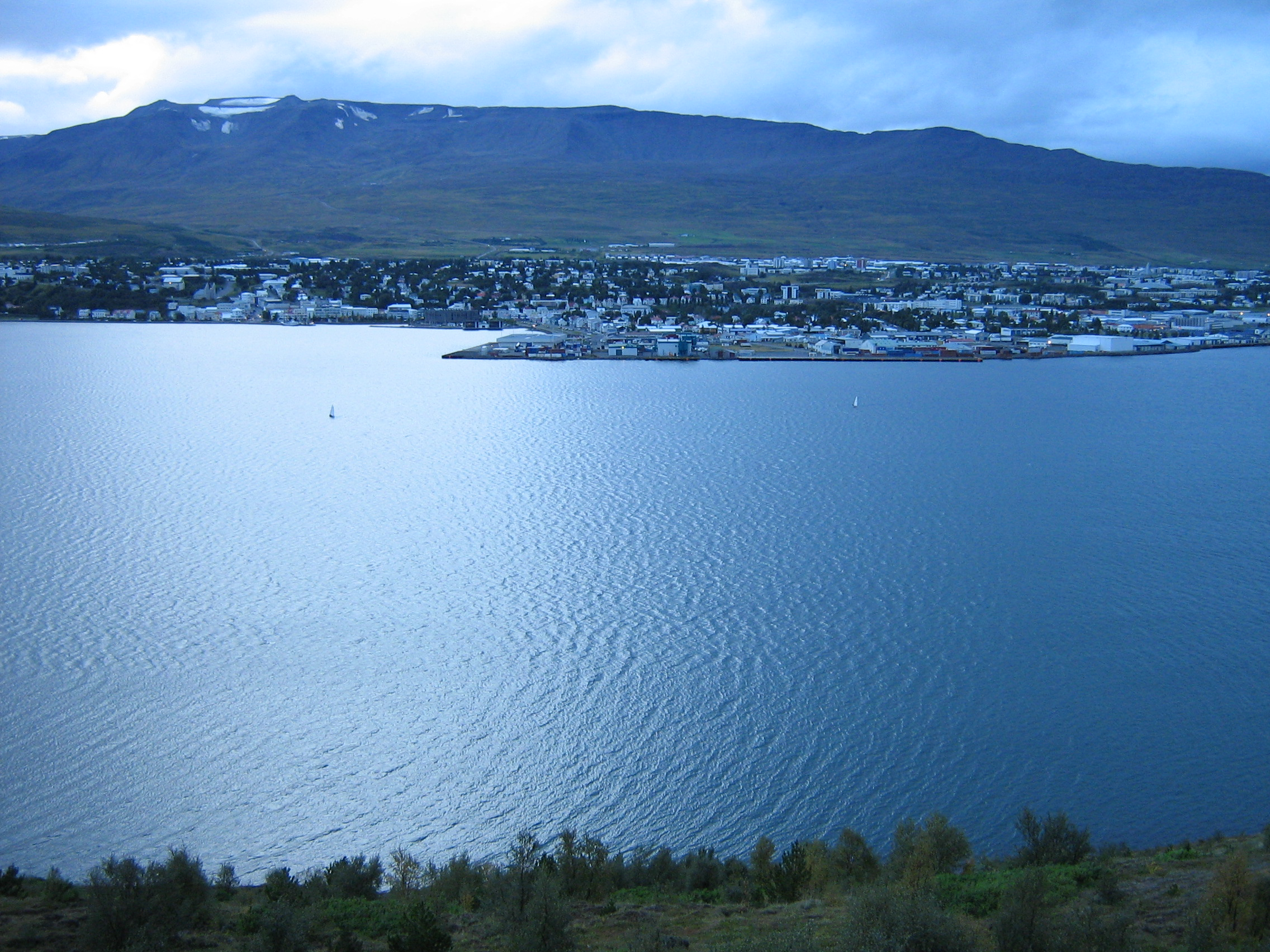 Iceland Akureyri